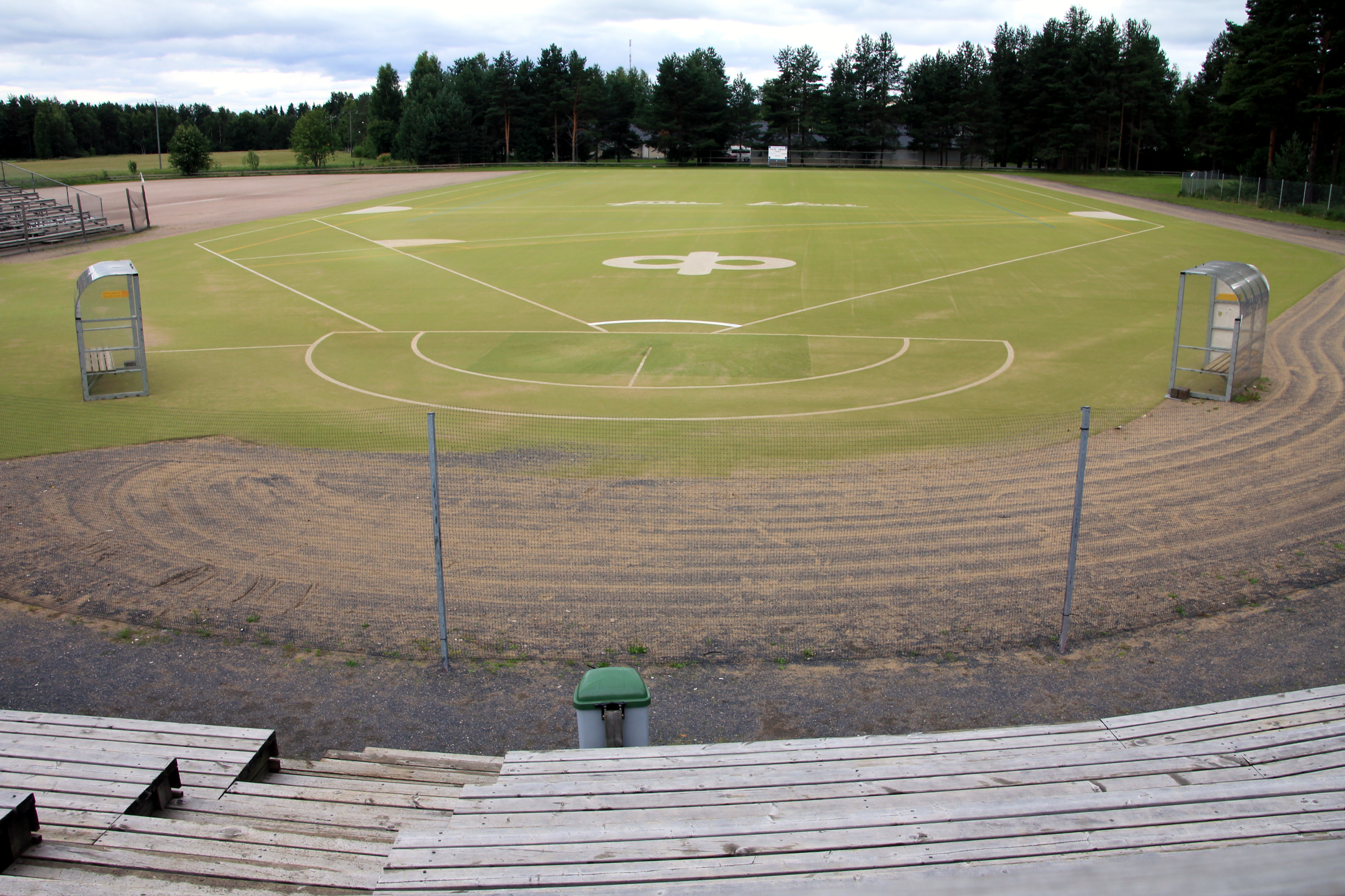 Finnish baseball field in Tyrnävä, Finland.